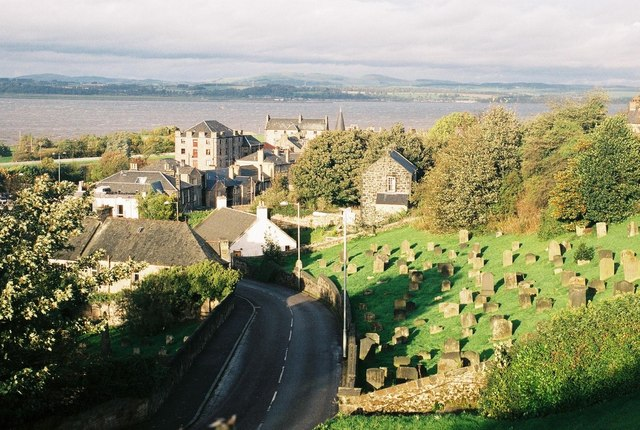 Bo’ness: view over town Looking north towards the Firth of Forth from the top of a hill in Bo'ness, which is a contraction of Borrowstounness.